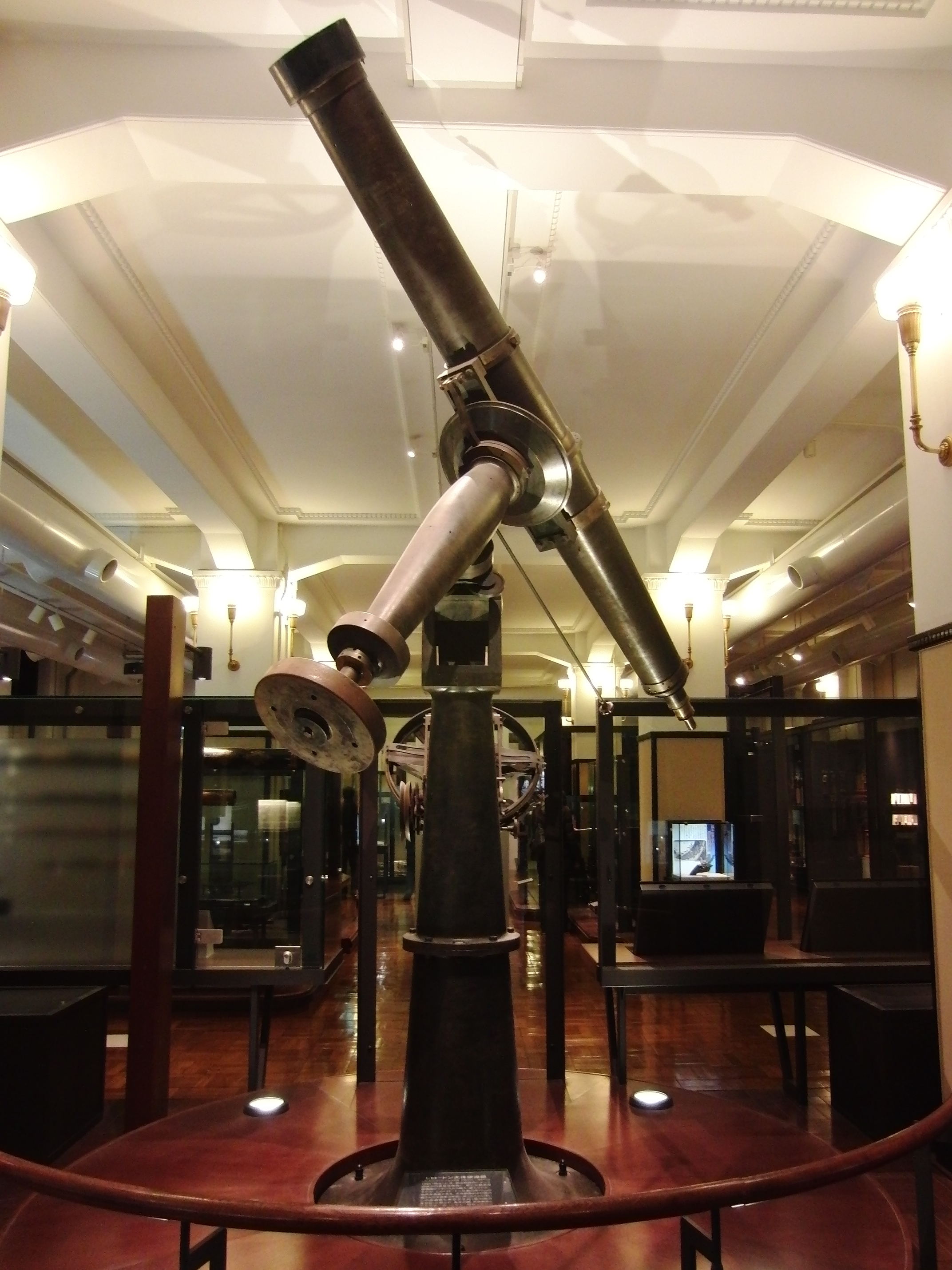 Troughton & Simms Astronomical Telescope. One of the Important Cultural Properties of Japan. Exhibit in the National Museum of Nature and Science, Tokyo, Japan.